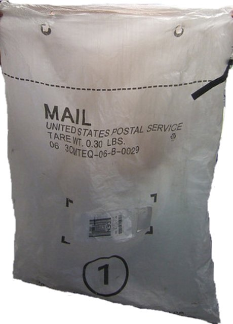 Plastic Mail Bag as used by the United States Postal Service